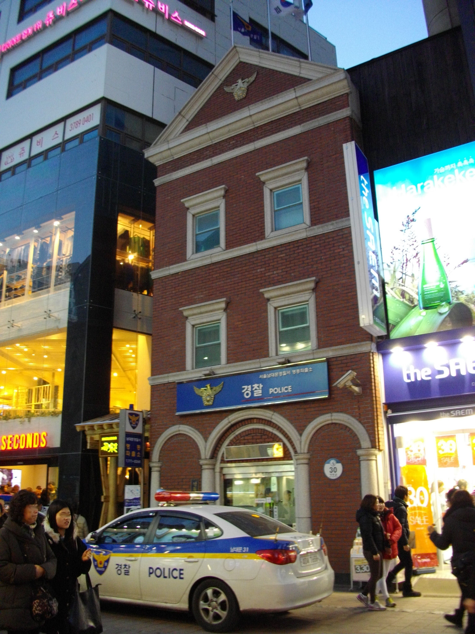 Seoul Namdaemun Police Station Myeongdong Police Box (Koban)